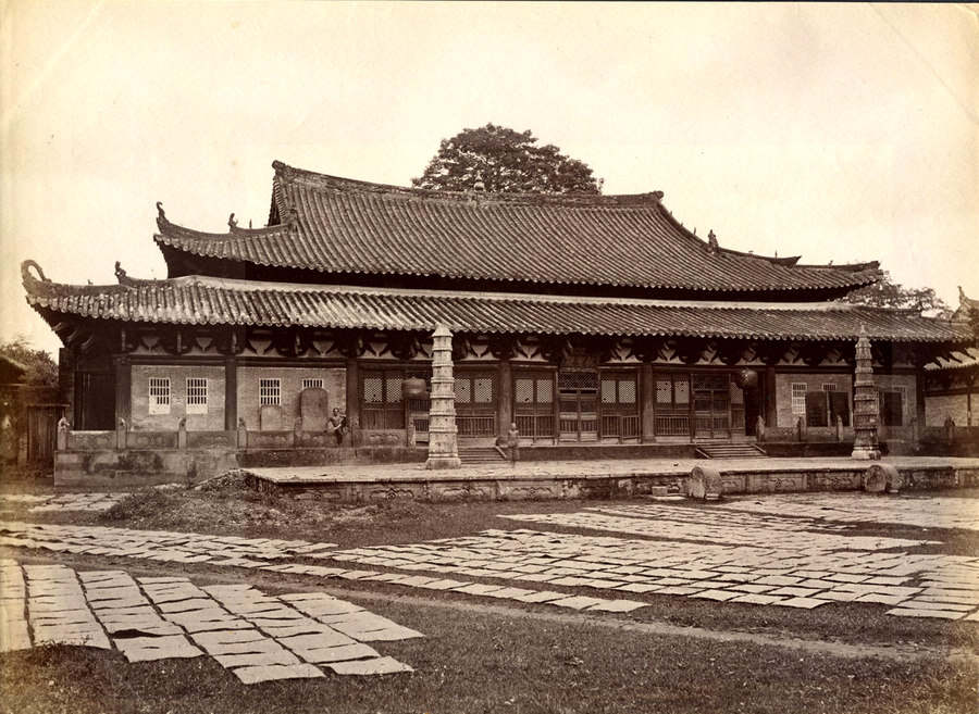 Main hall in the Temple of Bright Filial Piety